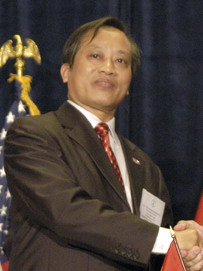 Trần Ngọc Cảnh, former CEO of Petrovietnam.